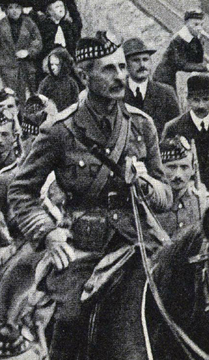 Colonel William Eagleson Gordon VC CBE (Plymouth, 1914)